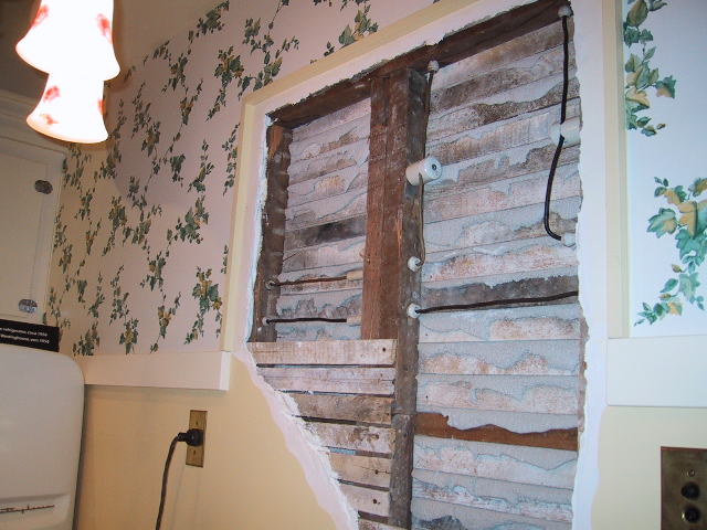 Knob and tube wiring as recreated at the Manitoba Electrical Museum. Wires run through the wall studs in white porcelain tubes, and are supported along the wall on white porcelain knobs. This wiring method was used up until the 1950s in Canada but is now obsolete and prohibited for concealed wiring.